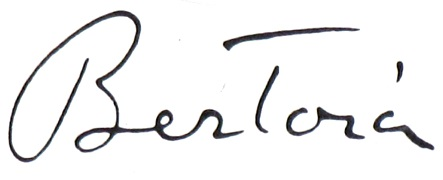 Bertoia - Firma